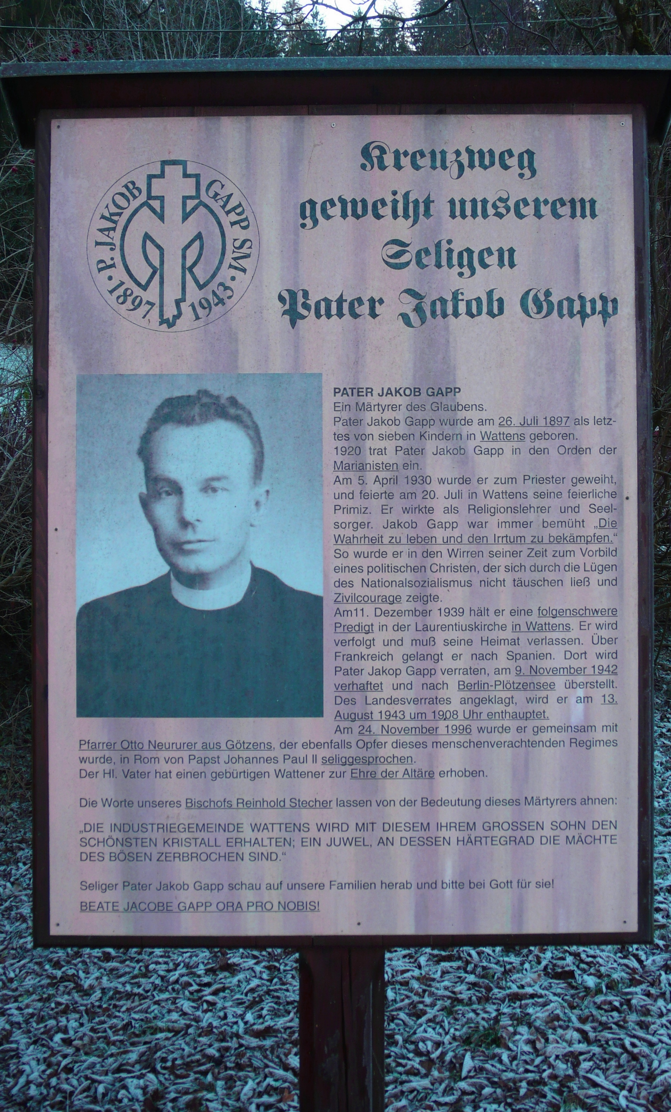 Jakob-Gapp Wattens in Austria